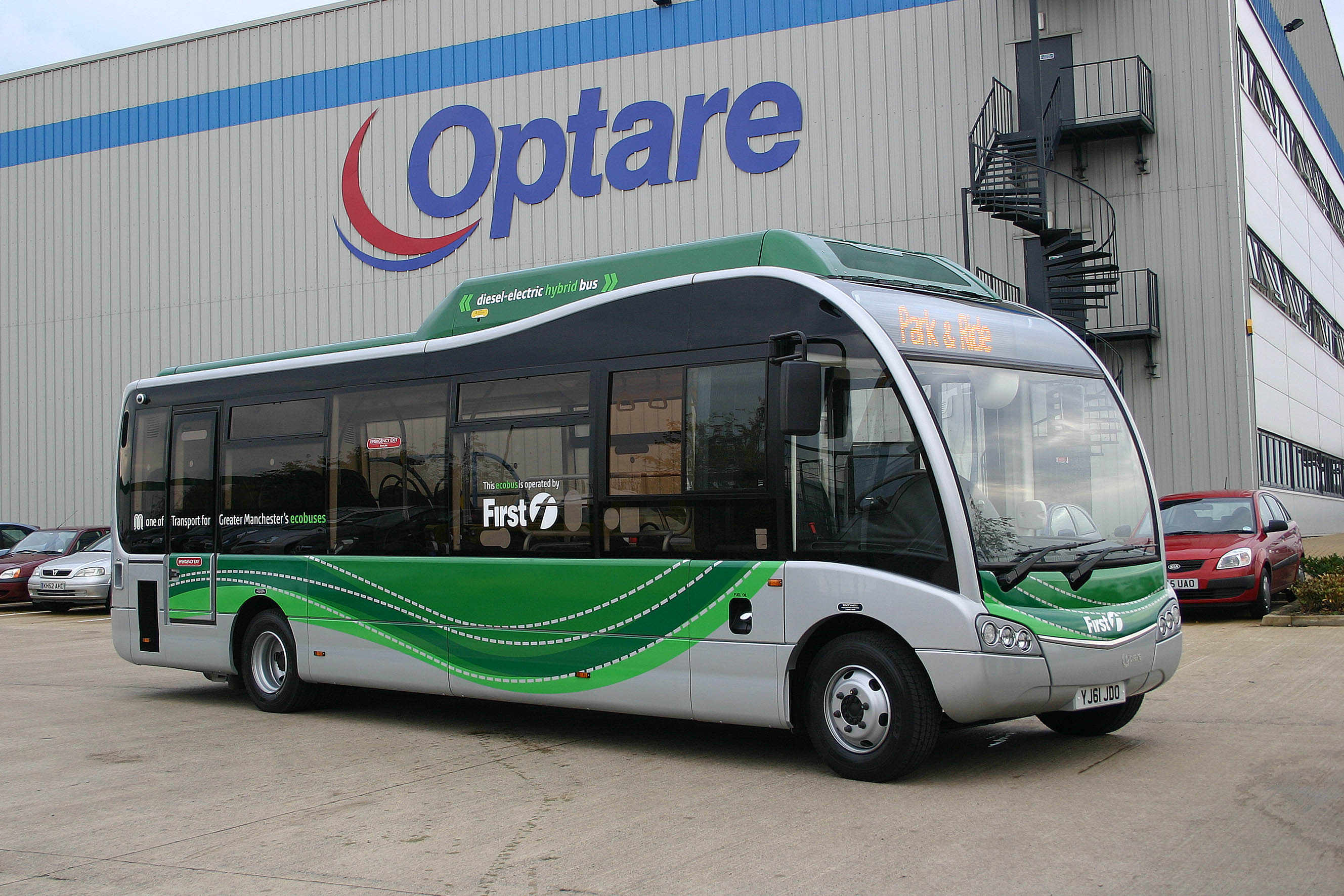 Solo SR with hybrid drive operting With First Manchester